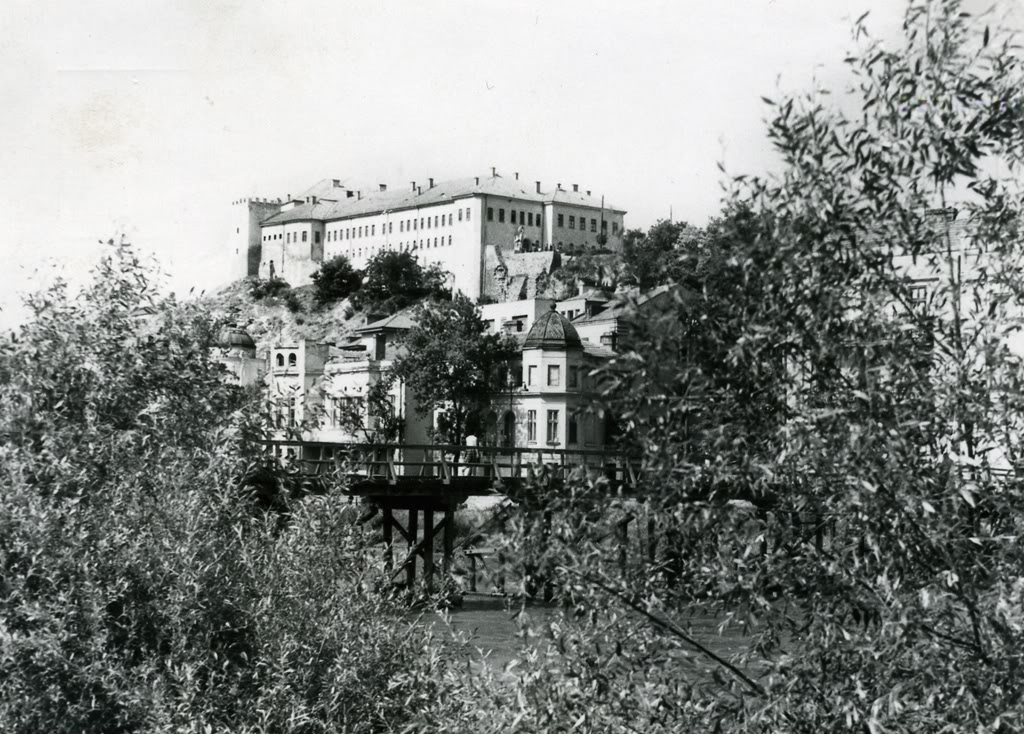 Jews quart and Skopje's Fortress. Macedonia